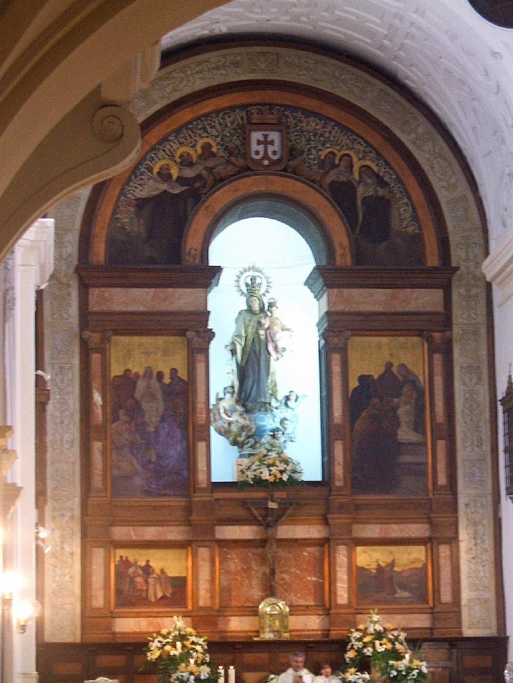 Iglesia del Convento de los Carmelitas Descalzos, Toledo